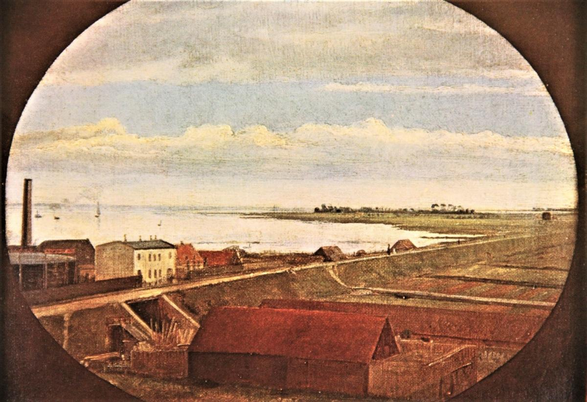 Painting from Vesterbro in Copenhagen, Denmark. Vestre Gasværk is seen to the left with the chimney. The tunnel which took Gasværksvej under the former railway embankment can also be seen to the left.